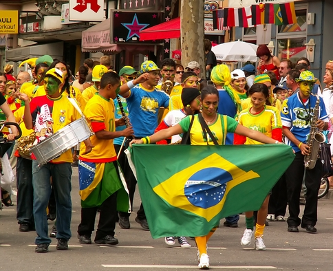 Brasilian football supporters in Germany